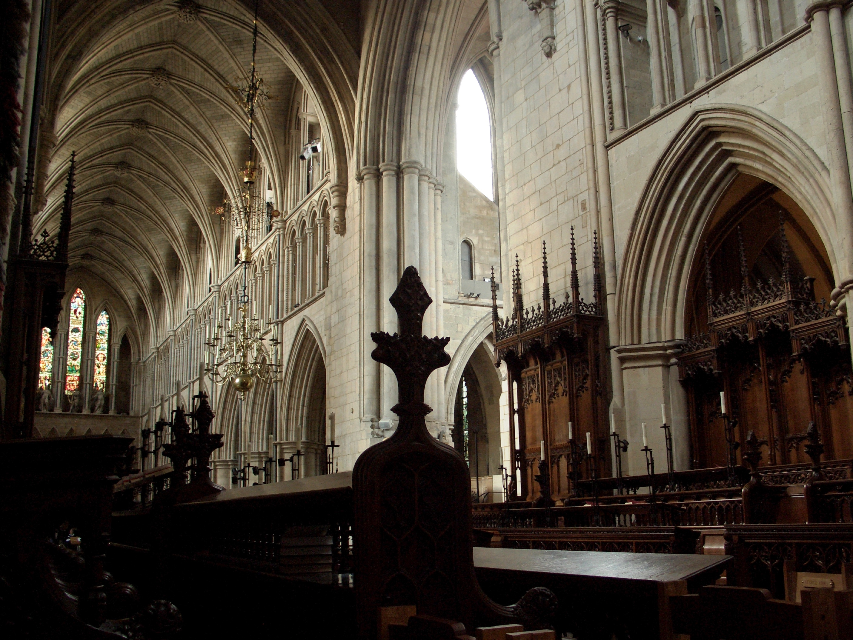 Londres - Catedral de Southwark - Interior